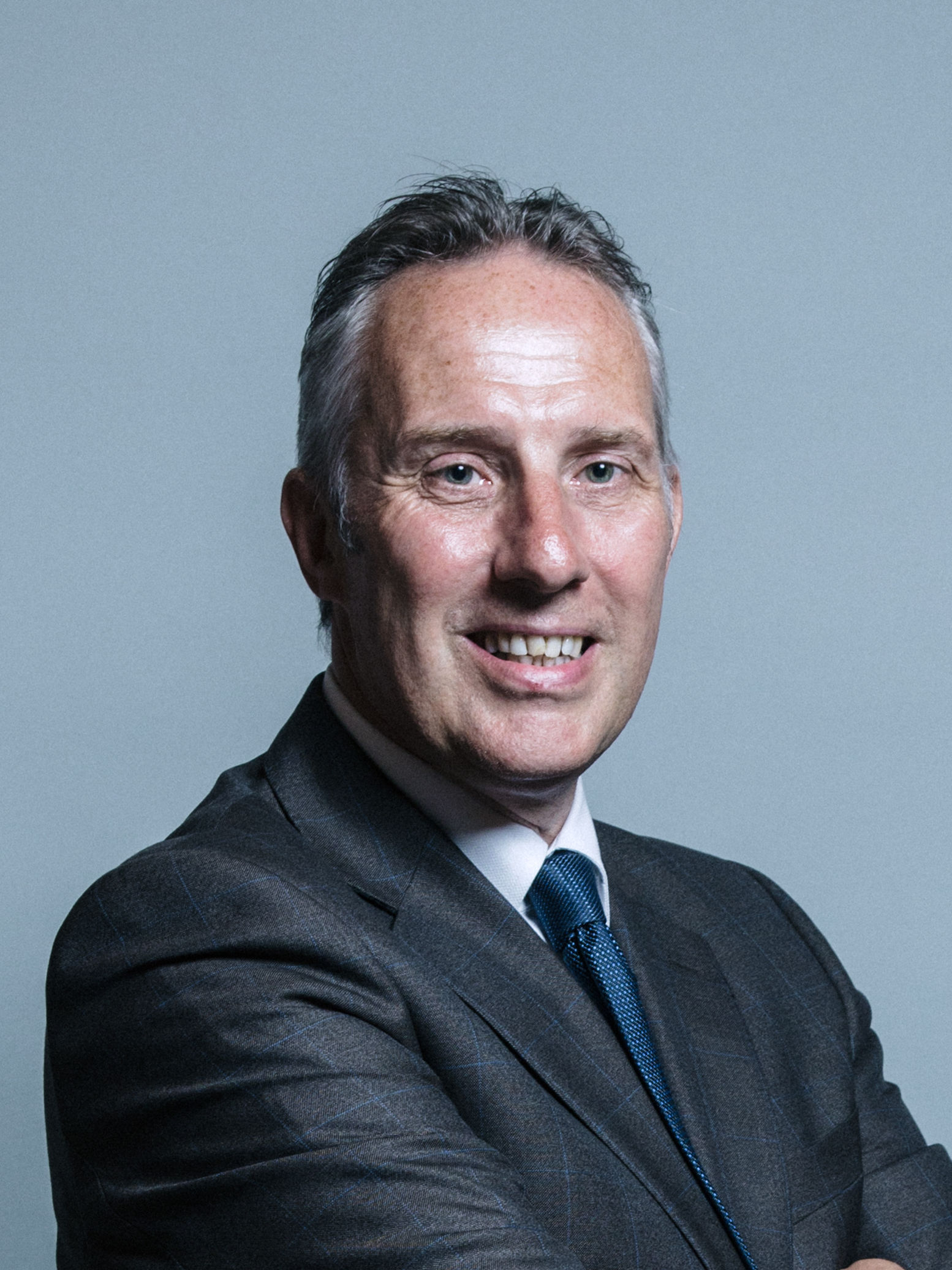 Official portrait of Ian Paisley